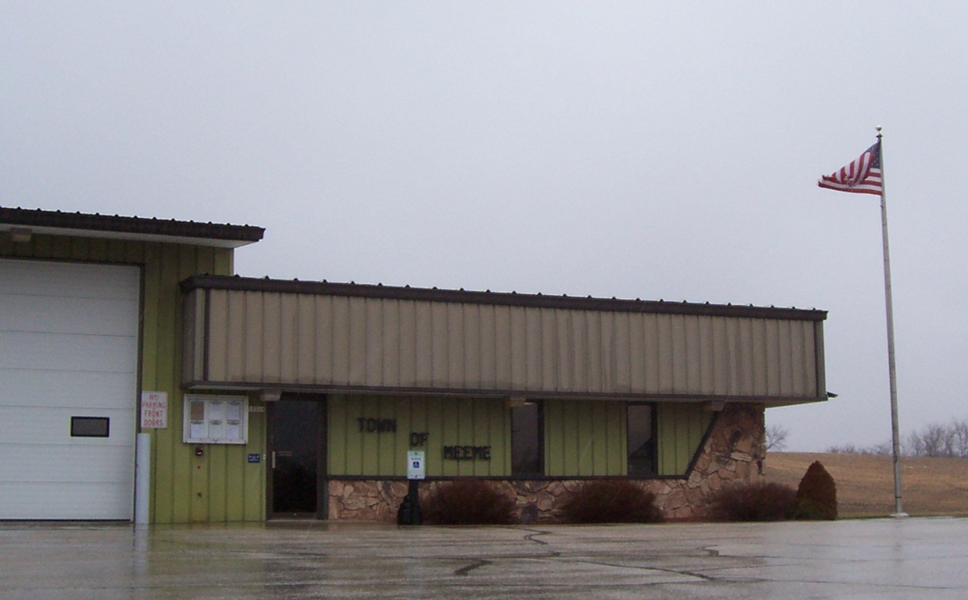 Looking north at the town hall for the township of Meeme, Wisconsin, US in Manitowoc County, Wisconsin in the unincorporated village of School Hill.